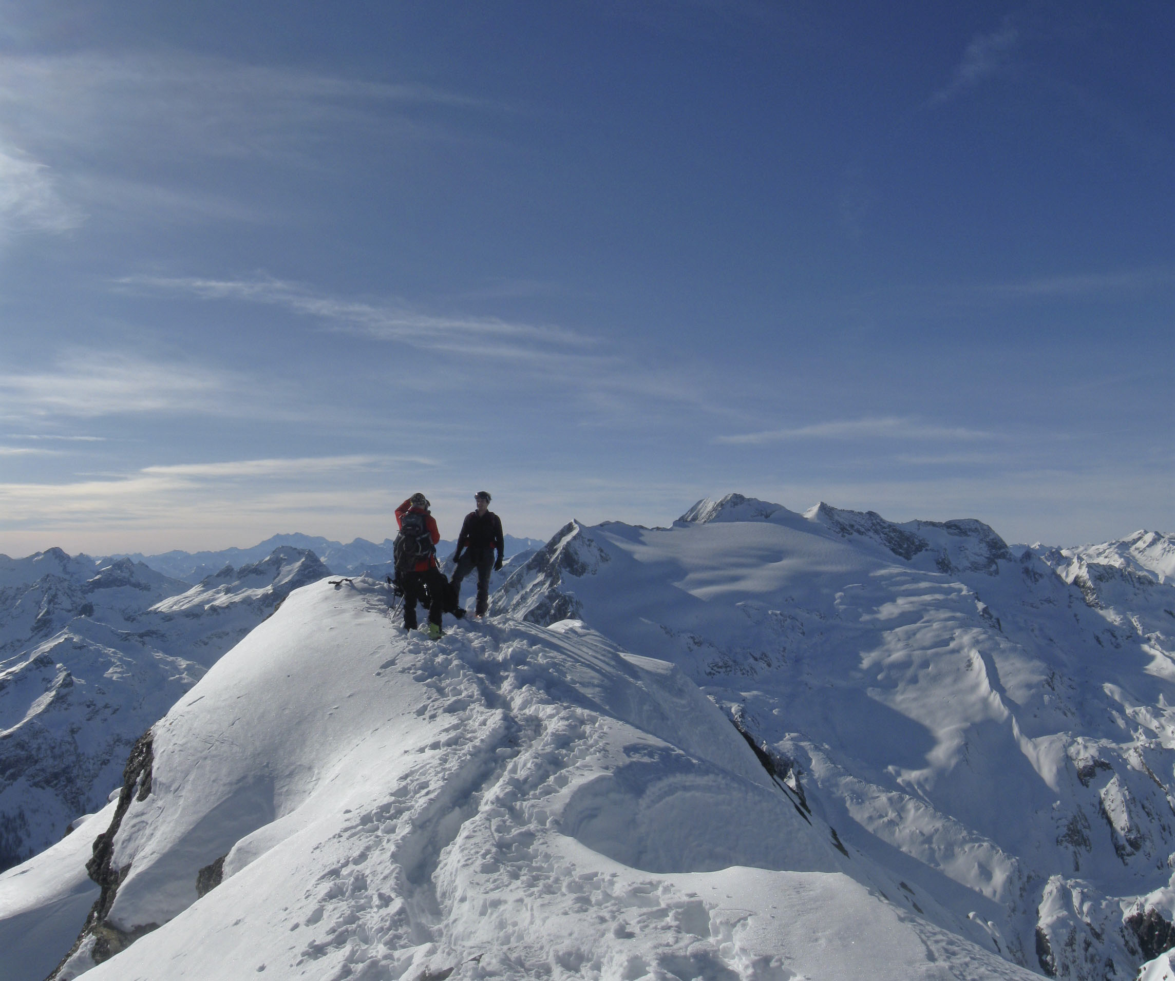 on top of Braga Poncione with Basodino in the background. In Ticino, Switzerland